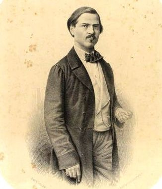 Lithograph portrait of the Italian tenor Pietro Neri-Baraldi (1828 – 1902). It was one a series of portraits of prominent singers at the Teatro de São Carlos in Lisbon published by A.S. Castro R. do Loreto in the mid-19th century .